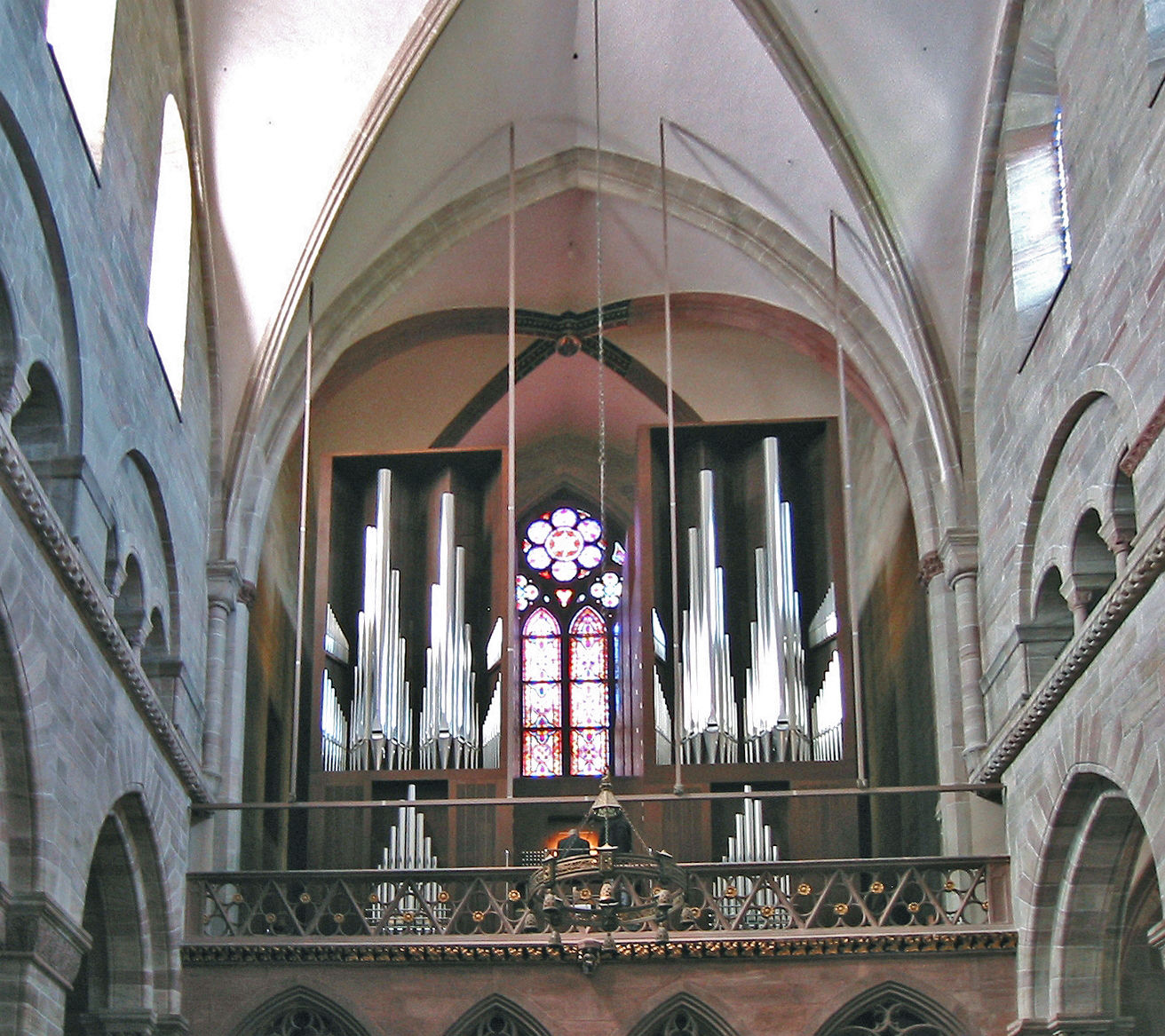 The organ in the cathedral of Basel in Switzerland